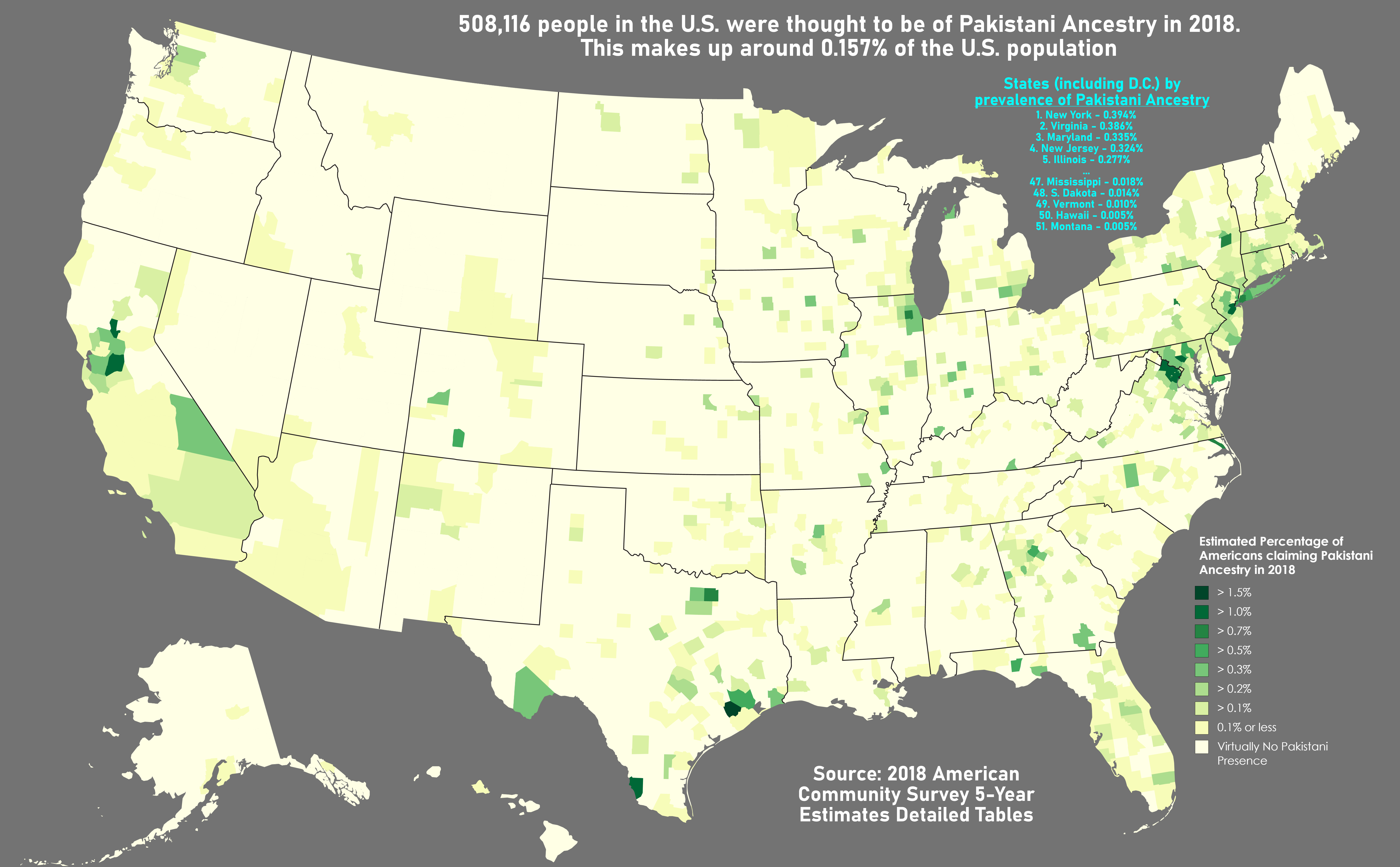 This is a map showing counties in the U.S.A. by the percentage of Americans they have claiming Pakistani Ancestry in 2018 according to the ACS's 5-year Estimates.